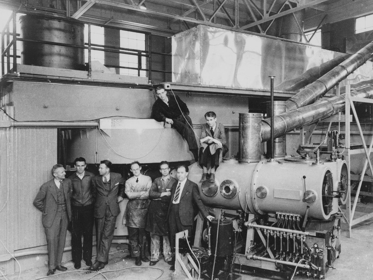 60-inch cyclotron, 1939. This shows the cyclotron at the Lawrence Radiation Laboratory, Berkeley, soon after completion in 1939. The key figures in its development and use are shown, standing, left to right: Dr D Cooksey, Dr D Corson, Dr Ernest Orlando Lawrence (1901-58), the inventor of the cyclotron; Dr R Thornton, Dr J Backus, WS Sainsbury, Dr LW Alvarez (1911-88) and Dr Edwin Mattison McMillan (1907-1991).